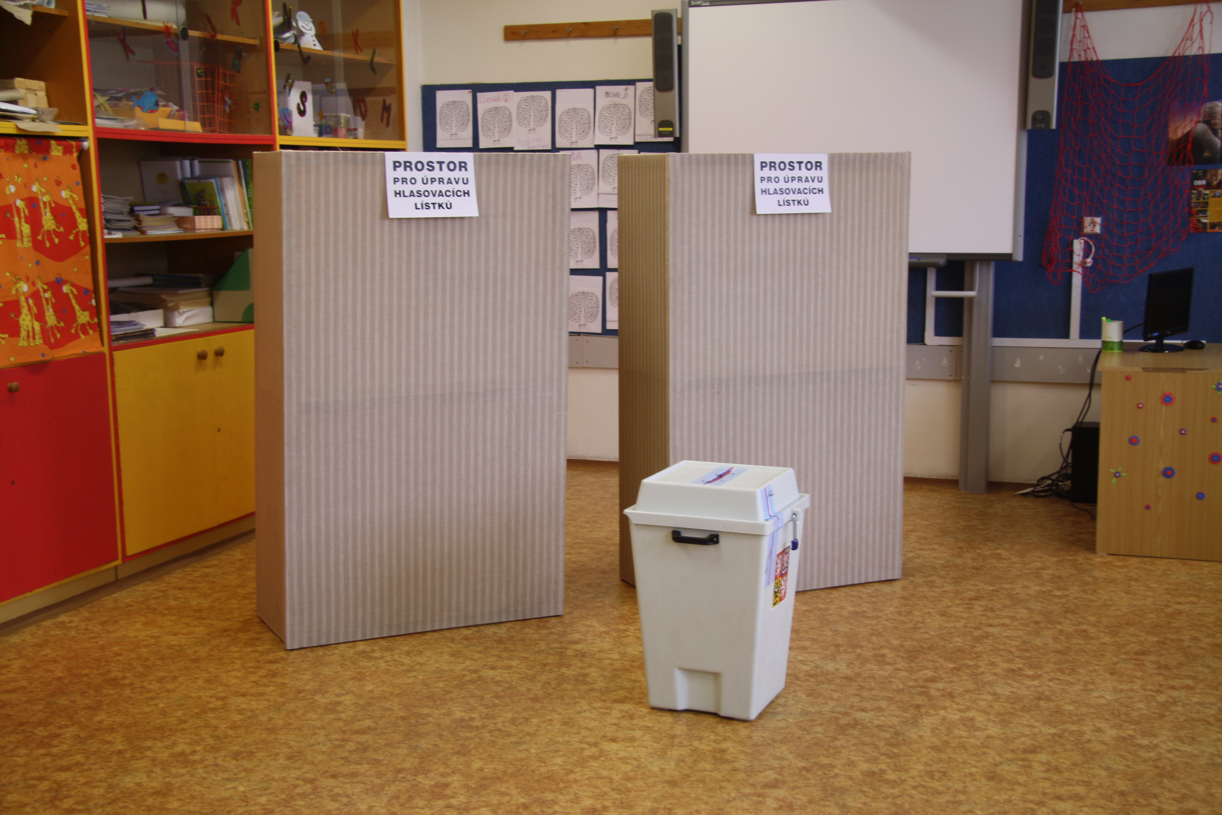 Polling station of Regional elections in Czechia in 2016 in Třebíč, Třebíč District.